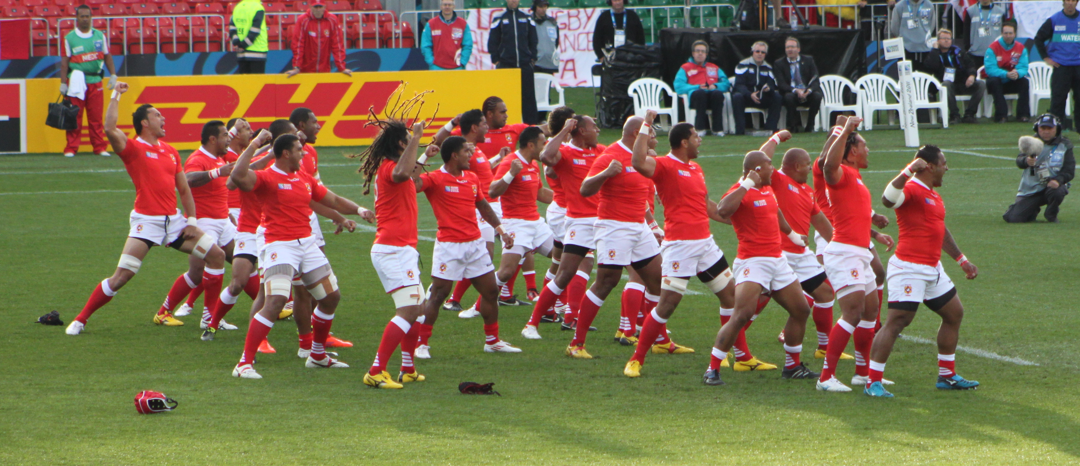 Tonga national rugby union team presenting Sipi Tau before 2011 Rugby World Cup match against France.